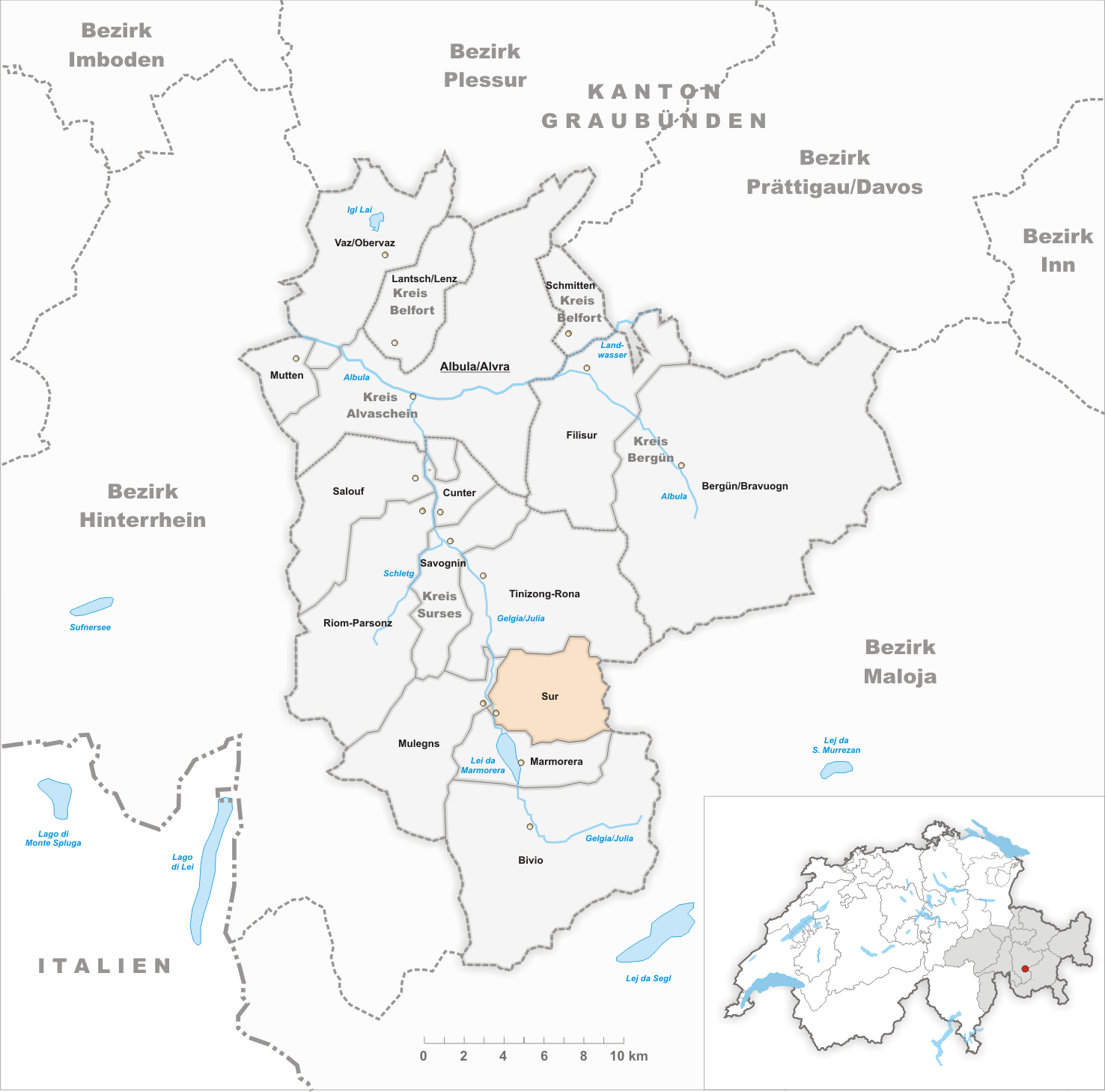 Municipality Sur